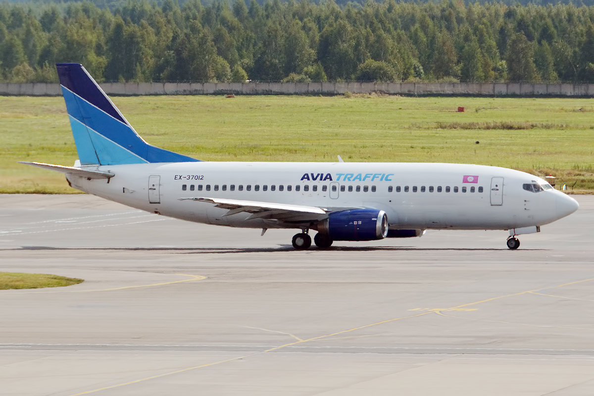 Avia Traffic, EX-37012, Boeing 737-33A